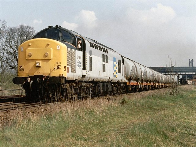 Ex-Railway Station, Brocklesby